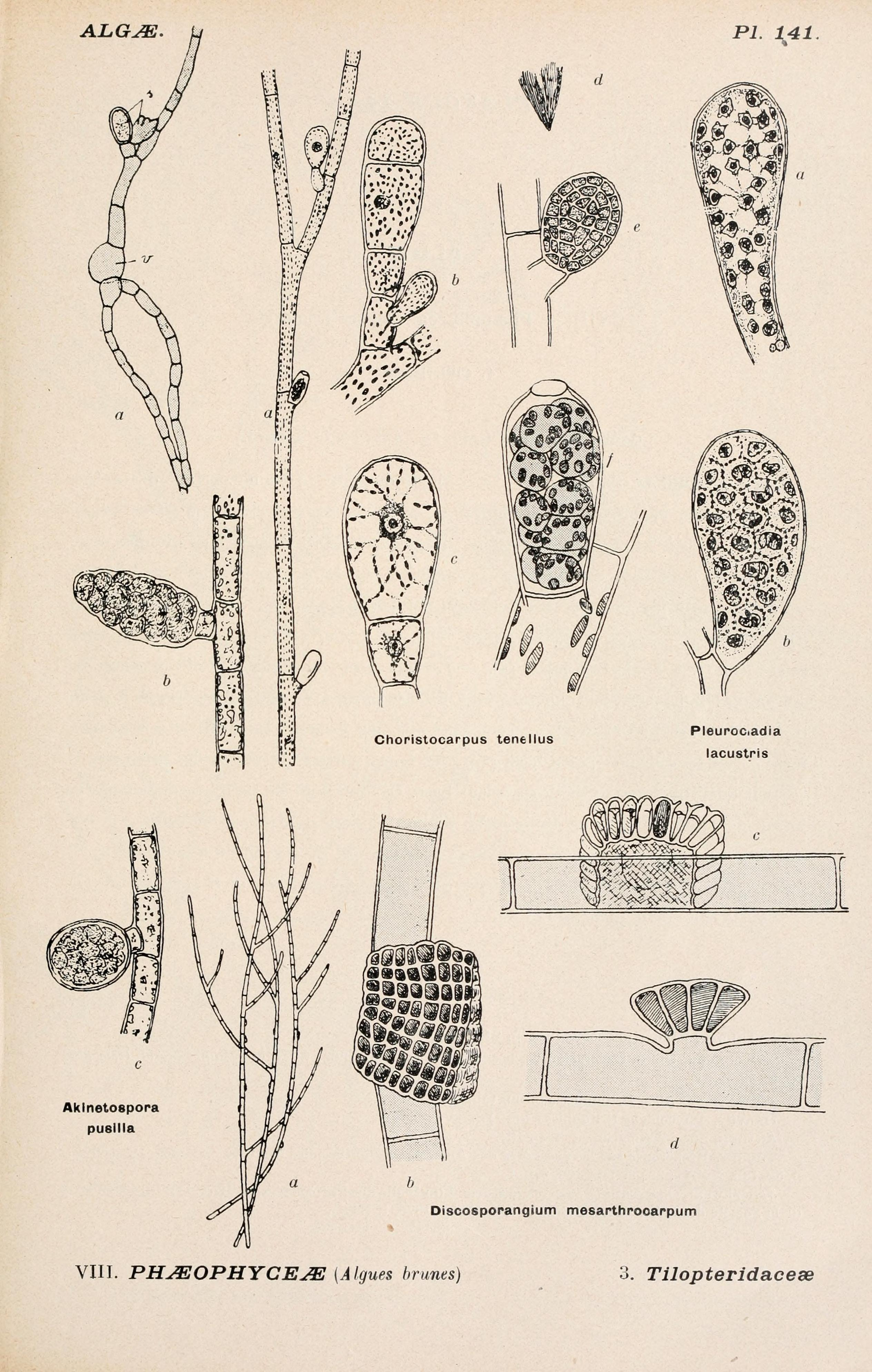 Title: Album général des diatomées marines, d'eau douce ou fossiles : album représentant tous les genres de diatomées et leurs principales espèces Year: (190-?) ((190s) Authors: Coupin, Henri, b. 1868 Subjects: Diatoms Publisher: Paris : H. Coupin Text Appearing Before Image: algæ: PL 141 Text Appearing After Image: Akinetospora pusilla Discosporangium mesarthrocarpum VIII. PHÆOPHYCEÆ (Algues brunes) 3. Tilopteridaceae